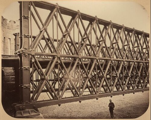 Description: Detail (close-up) of 'Schifkorn' bridge construction over Pruth River. Creator: Schoon Date: ca. 1868 Place: Chernivtsi, Ukraine Part Of: 'LE', Lemberg Eisenbahn